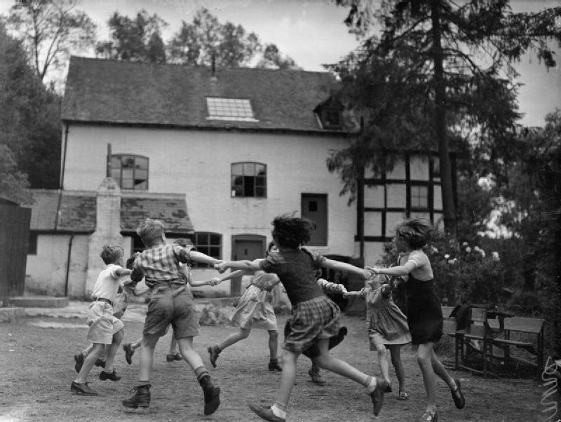 International School- Life at Pauntley Court, a School and Home For French and Belgian Refugees, Pauntley, Gloucestershire, 1943 A group of French and Belgian refugee children play ring-a-roses with British evacuees in front of the old mill house, where the French-speaking children go to school. All the children are staying at Pauntley Court in Gloucestershire.